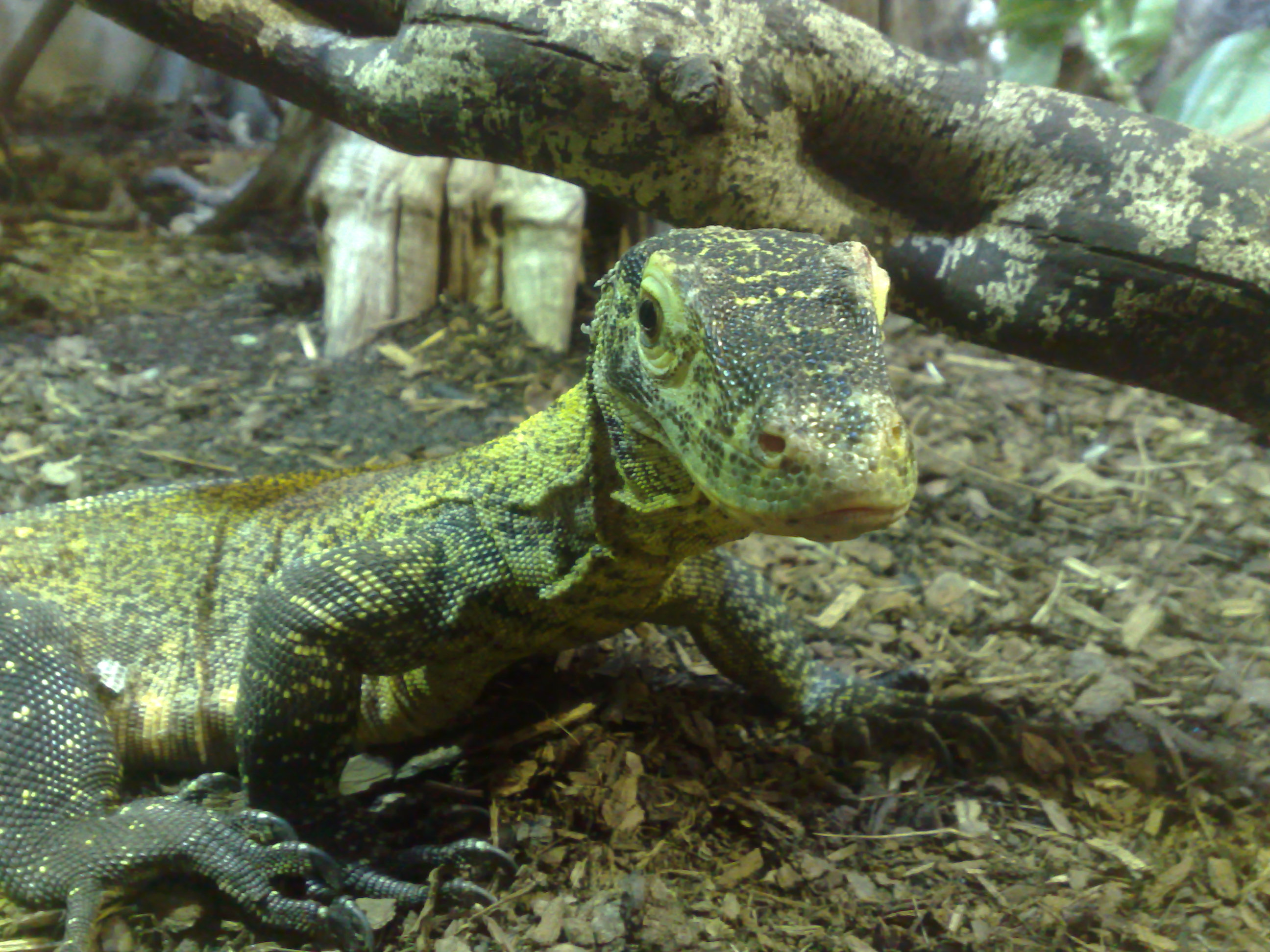 A baby Komodo dragon born by parthenogenesis, photographed at Chester Zoo